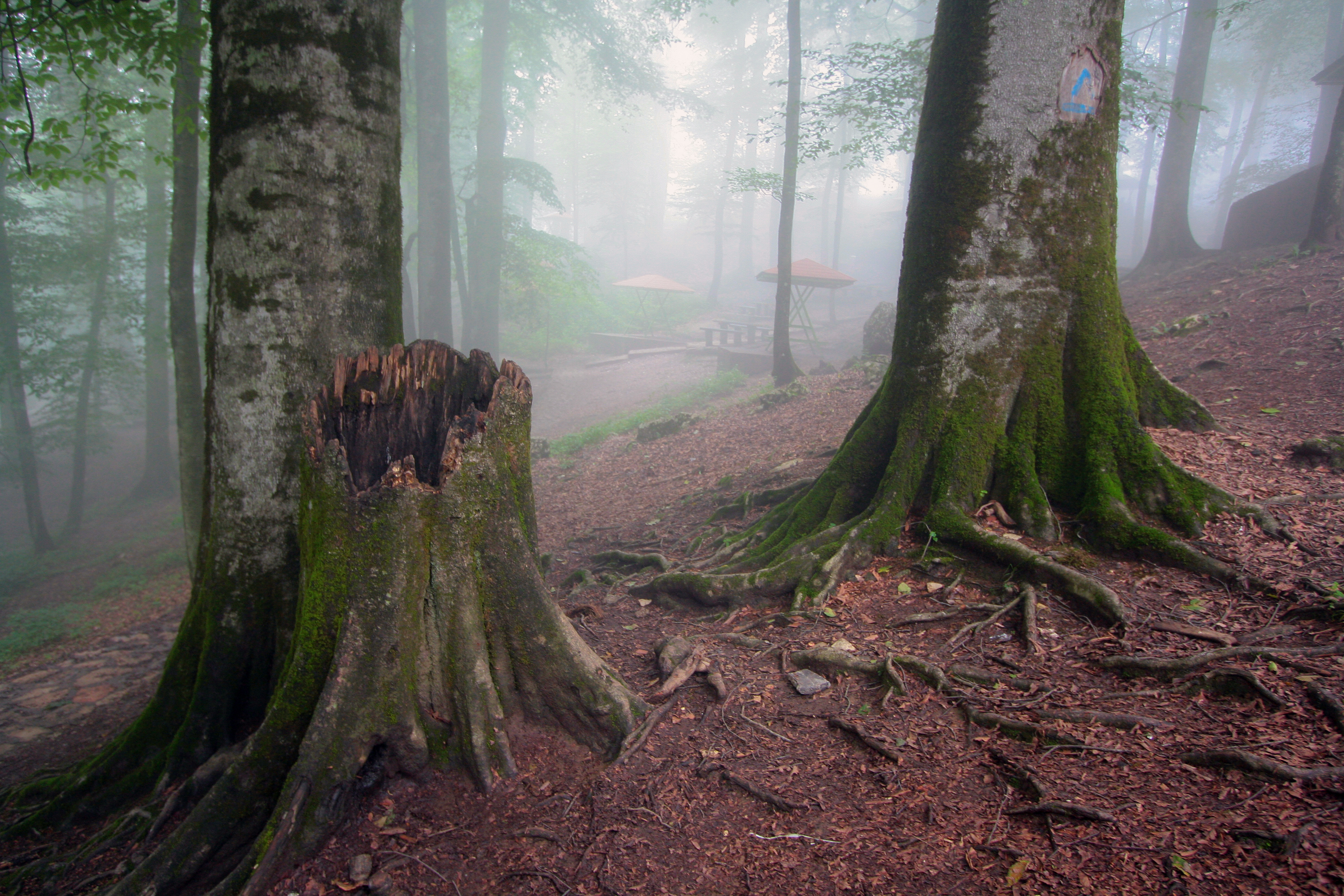 Shahrak-e Namak Abrud (Persian: شهرك نمك ابرود, also Romanized as Shahrak-e Namak Ābrūd; also known as Namak Abrood, Namak Ābrūd, Namak Ābrūd Sar, and Namakrūd Sar)is a village in Kelarestaq-e Gharbi Rural District, in the Central District of Chalus County, Mazandaran Province, Iran. At the 2006 census, its population was 354, in 71 families.